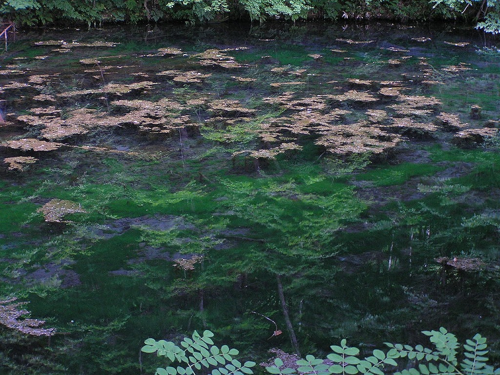 Torinuma-park 鳥沼公園.